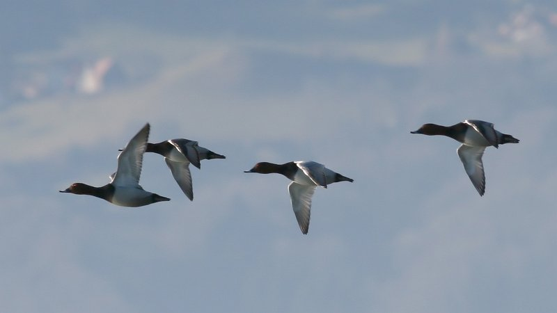 Pochard (Aythya ferina) This image was created by Ken Billington. If you are interested in a high resolution copy of this image, please contact the author Ken Billington in order to negotiate conditions of use. Do not copy this image illegally by ignoring the terms of the license below, as it is not in the public domain. If you would like special permission to use, license, or purchase the image please contact me to negotiate terms. More free images can be found on Ken Billington's Bird & Wildlife Photography.